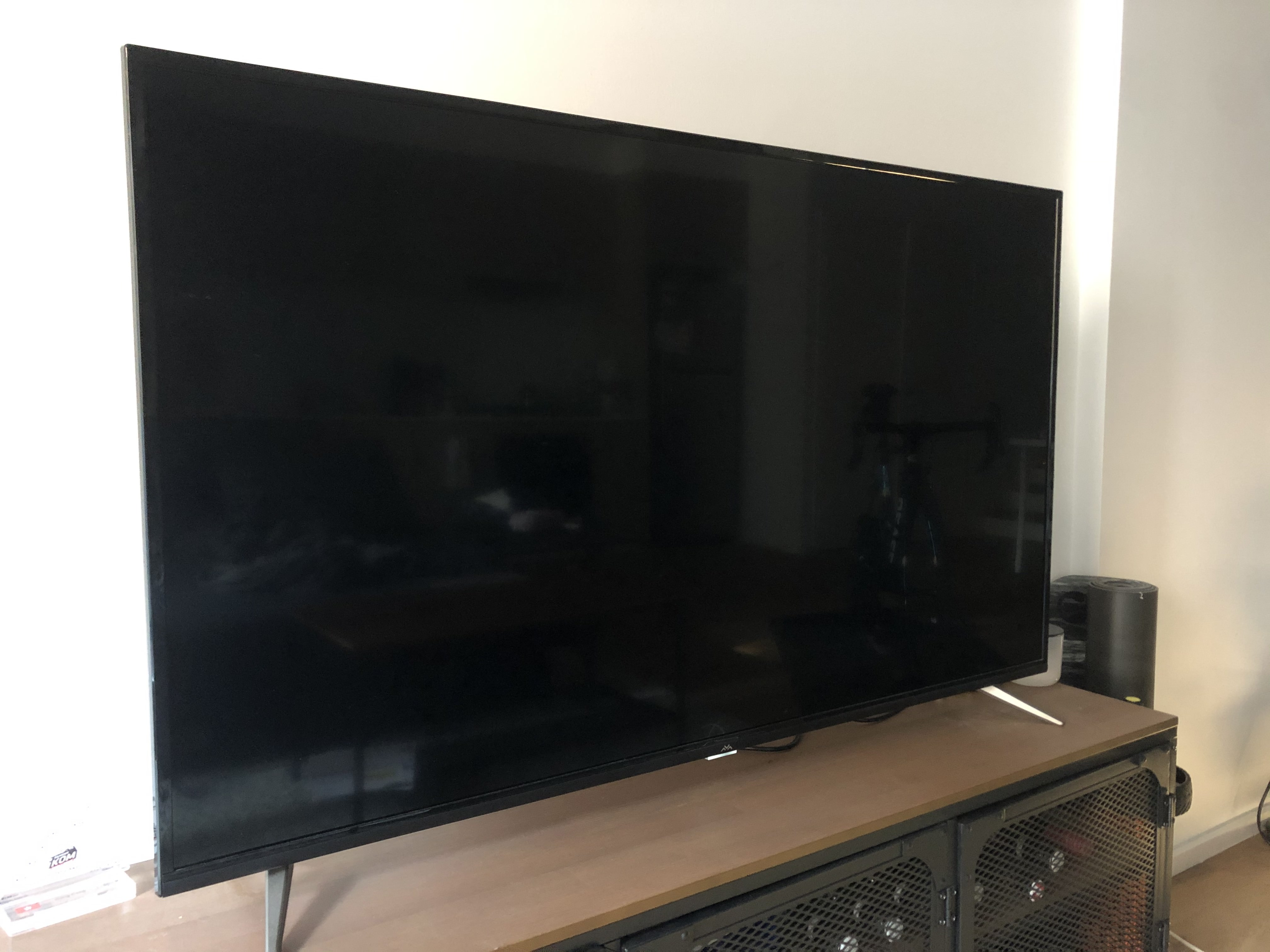 This is a 2019 55" inch FFalcon UHD Smart TV